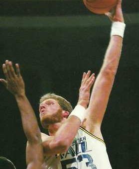 Professional basketball player Mark Eaton